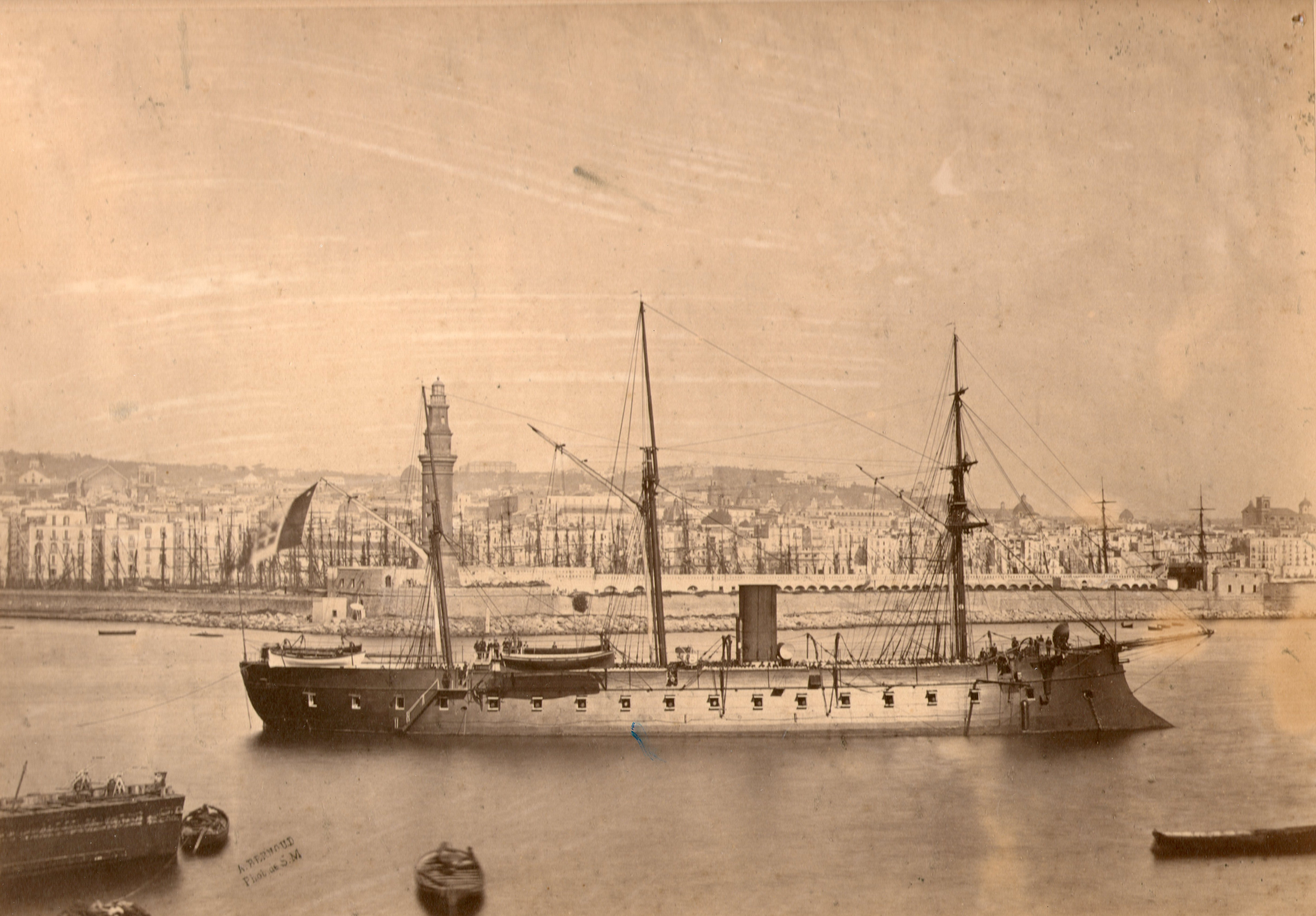 Italy, Regia Marina. The Italian frigate Castelfidardo (1864) taken at Naples in the autumn of 1866 before leaving for La Spezia.